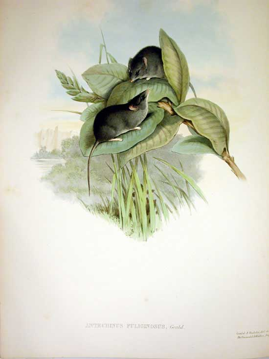 Sminthopsis murina (formerly known as Antechinus fuliginosus) Photo from "Mammals of Australia", Vol. I Plate 41 Part of the 3 Volumes by John Gould, F.R.S. Published by the author, 26 Charlotte Street, Bedford Square, London, 1863